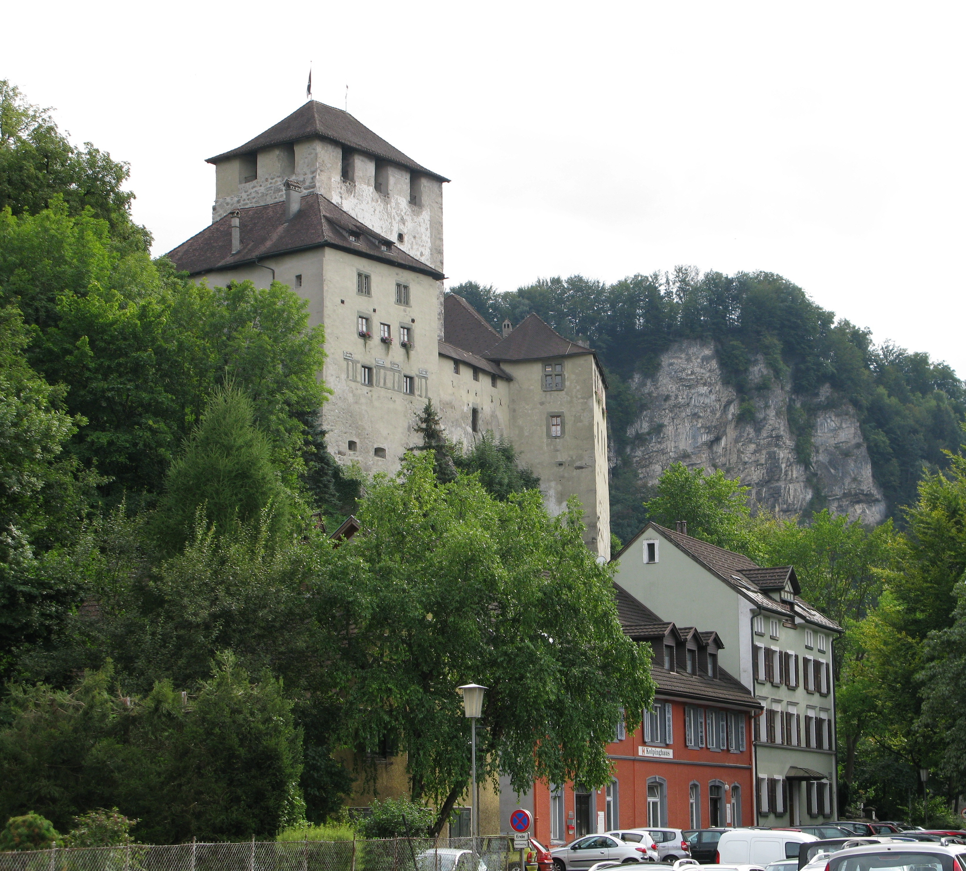 The Schattenburg in Feldkirch, Arlberg, Austria.